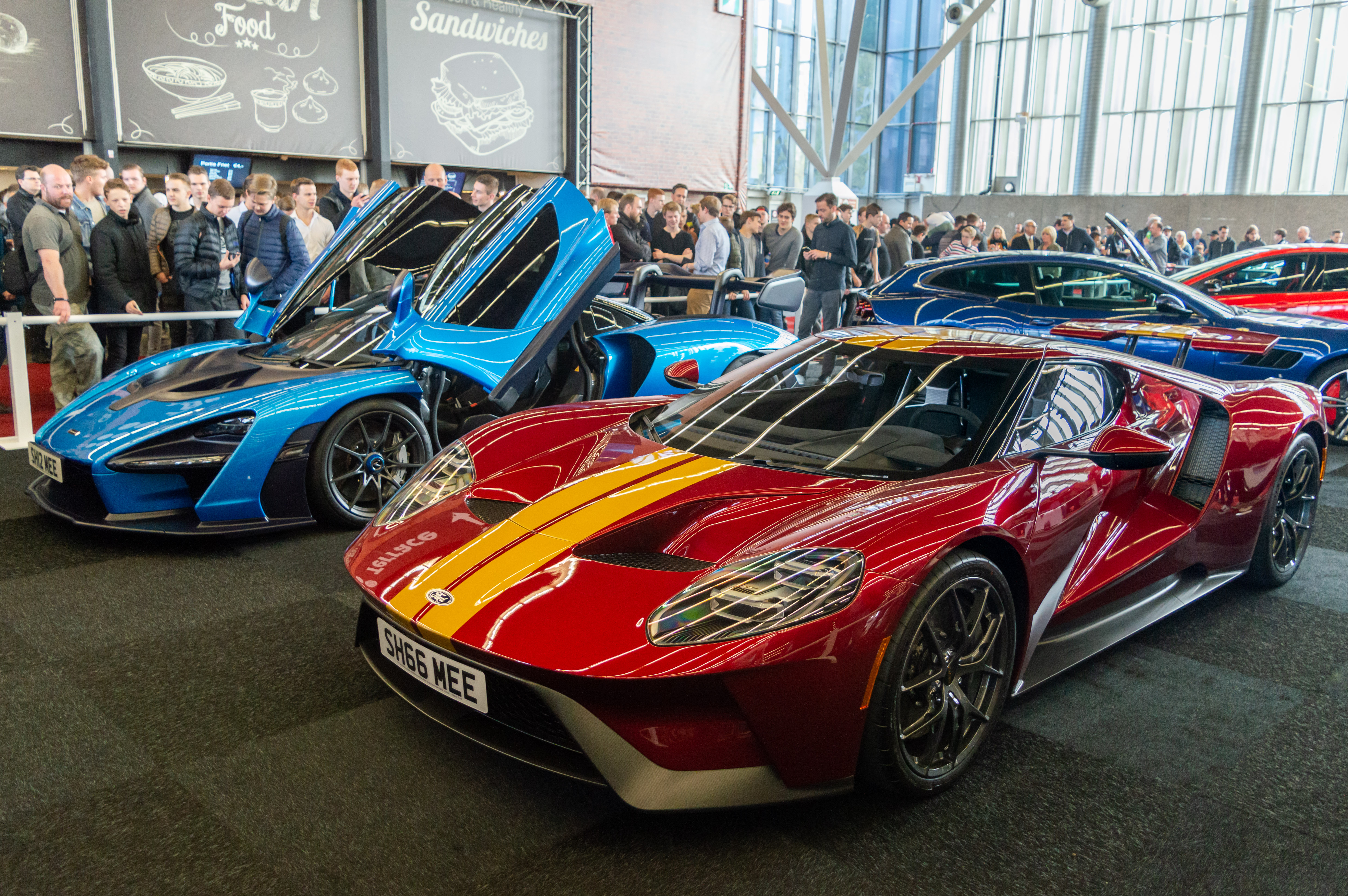 The Ford GT and McLaren Senna belonging to Tim Burton or "Shmee150" at the 2019 International Amsterdam Motor Show.